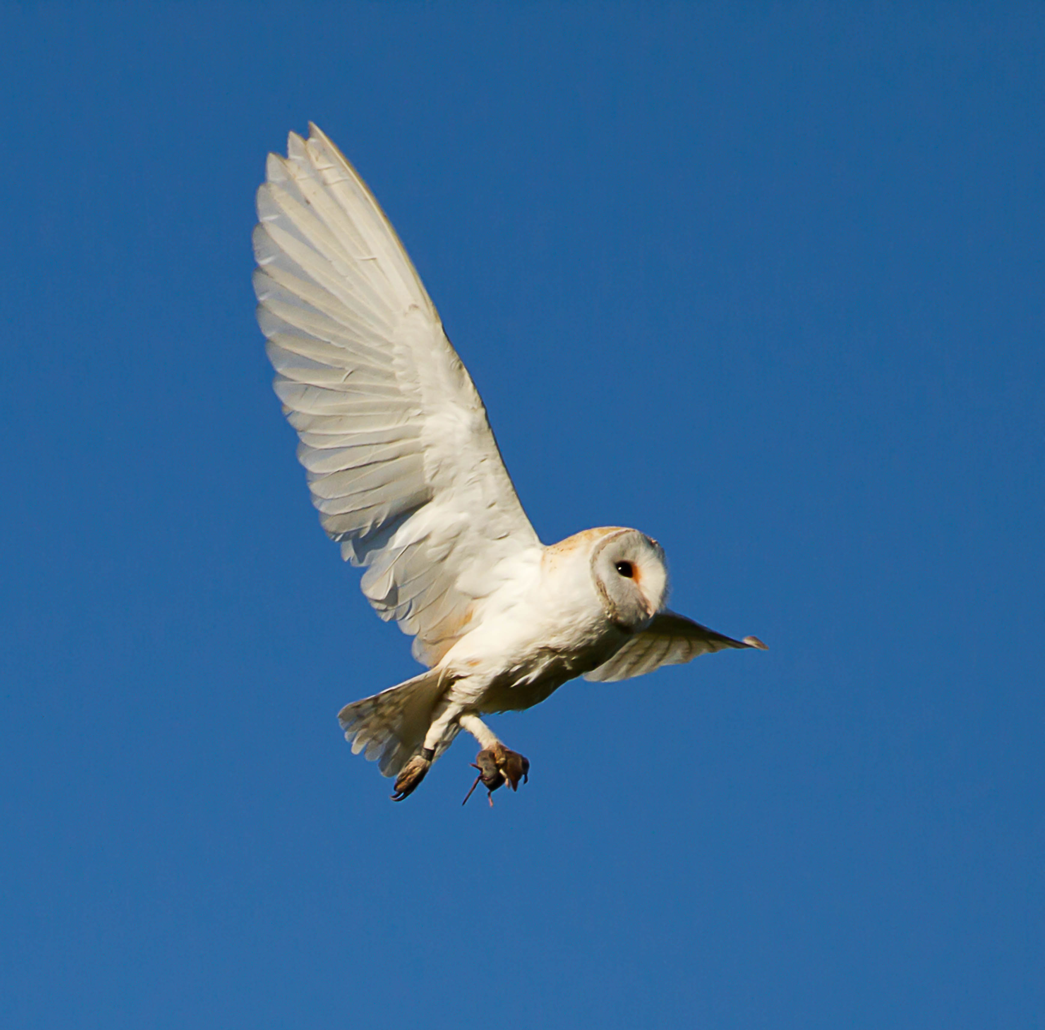 Barn Owl Tyto alba alba carrying prey, West Acre, Norfolk, England.